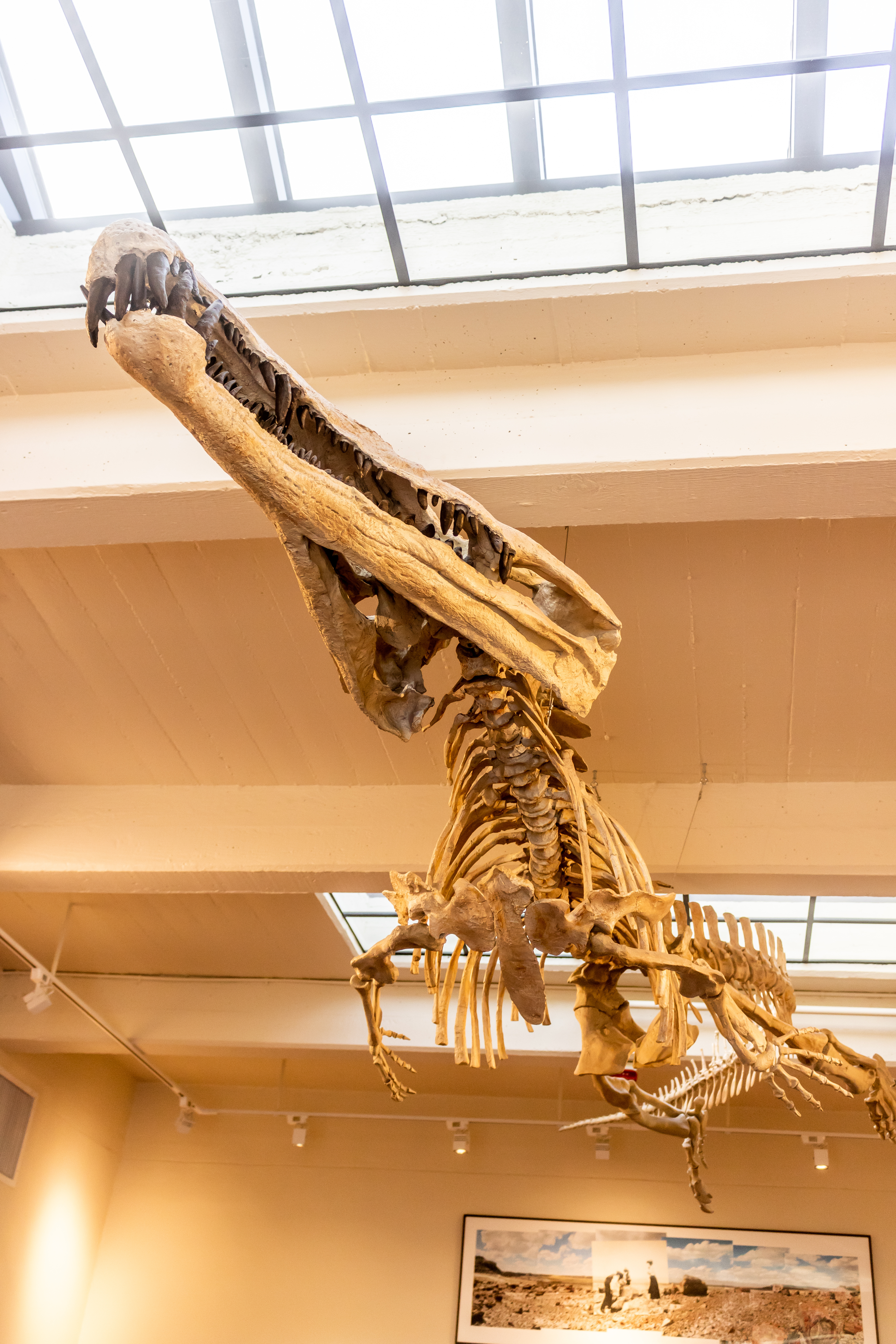 Petrified Forest National Park. Arizona. Dinosaur. Fossil.